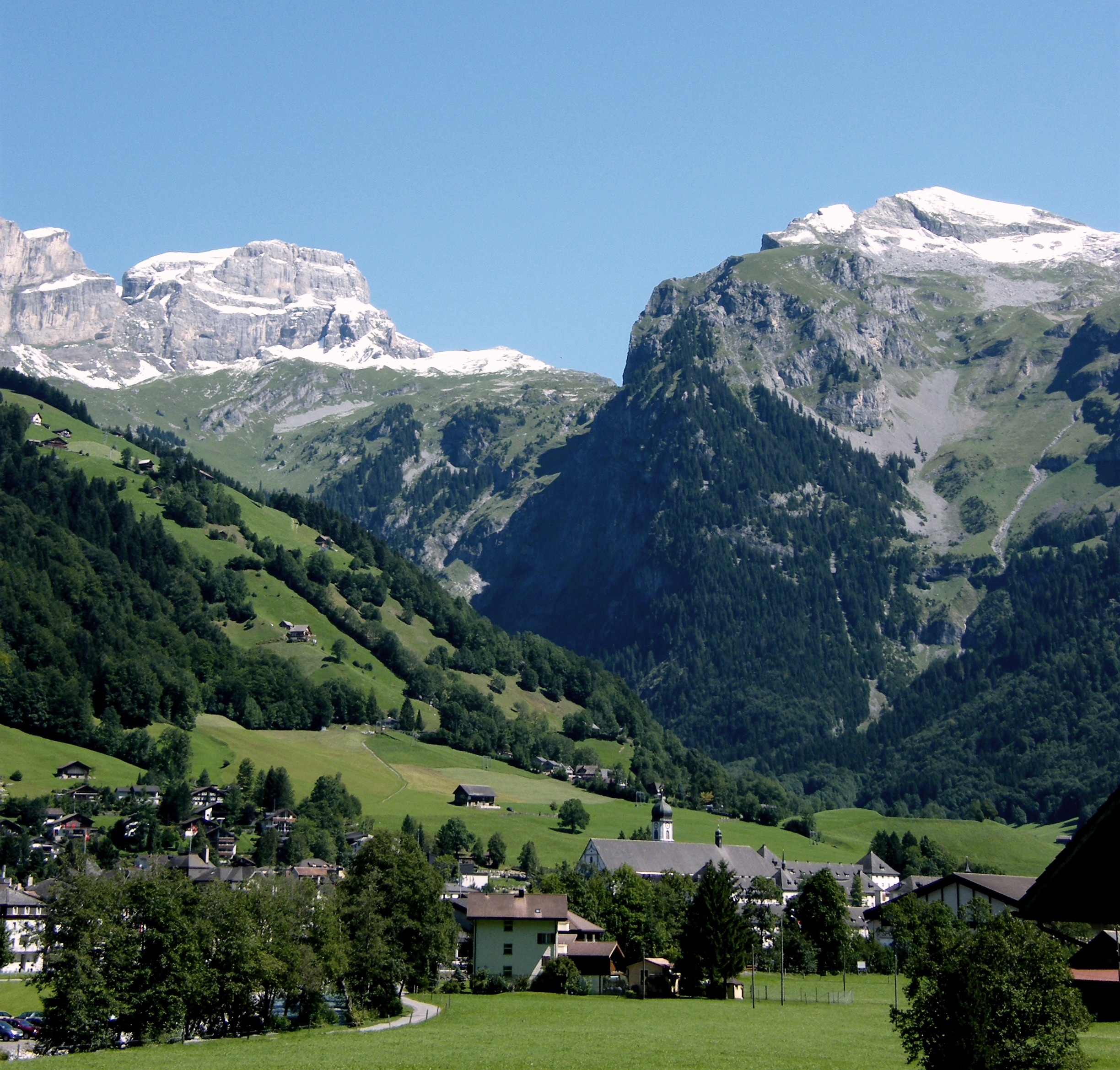 View from Engelberg towards northeast with the Lauchernstock and the Ruchstock to the left, and the Gros Gemsispil to the right